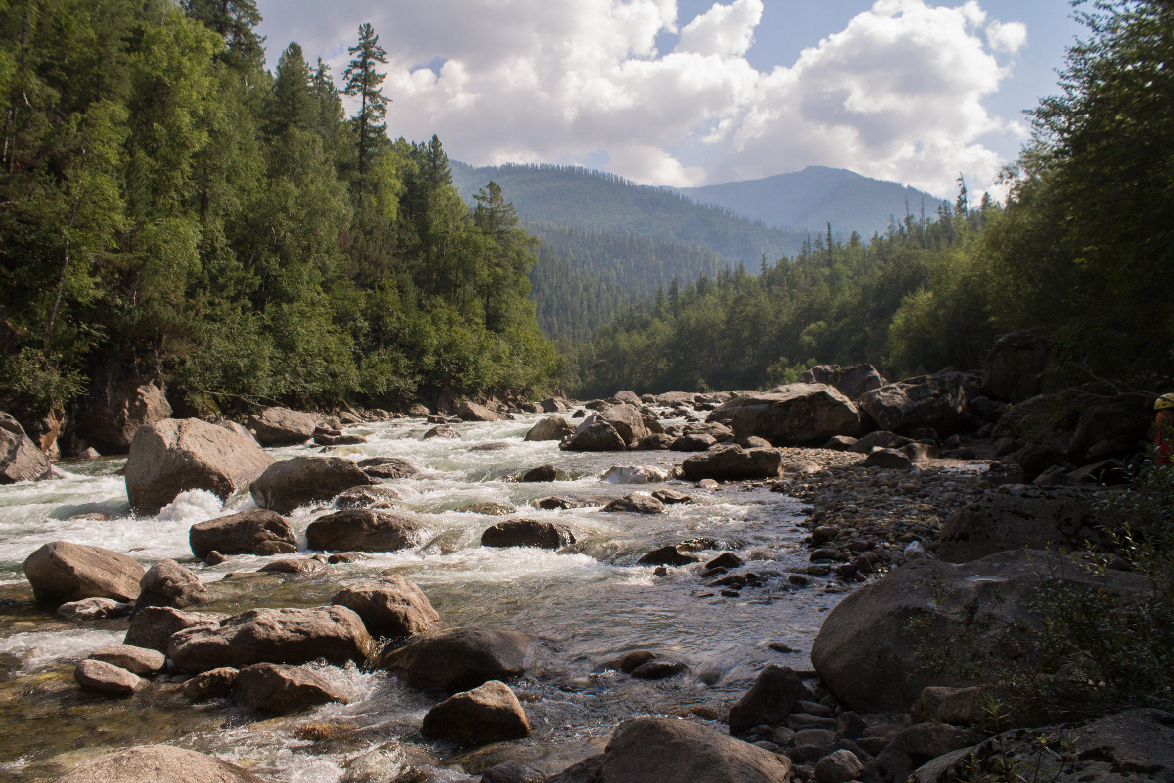 река Утулик